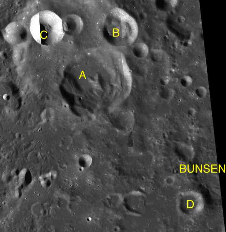 Part of the chart LAC-36 used for the presentation